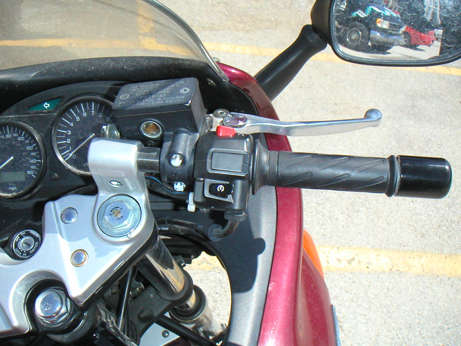 Suzuki Motorcycle